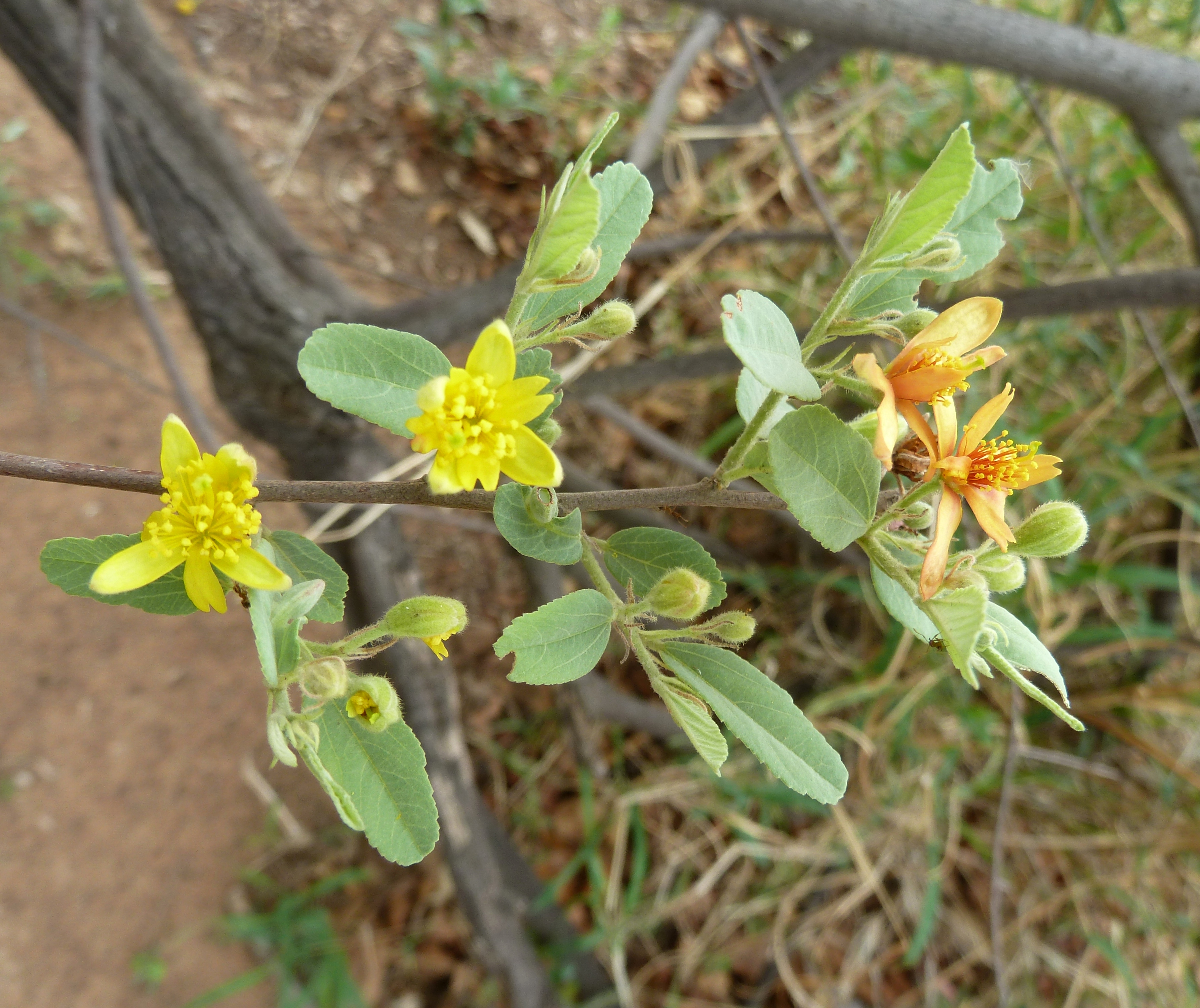 Foliage and flowers of a velvet raisin at the picnic site at Zoutpan near Pretoria